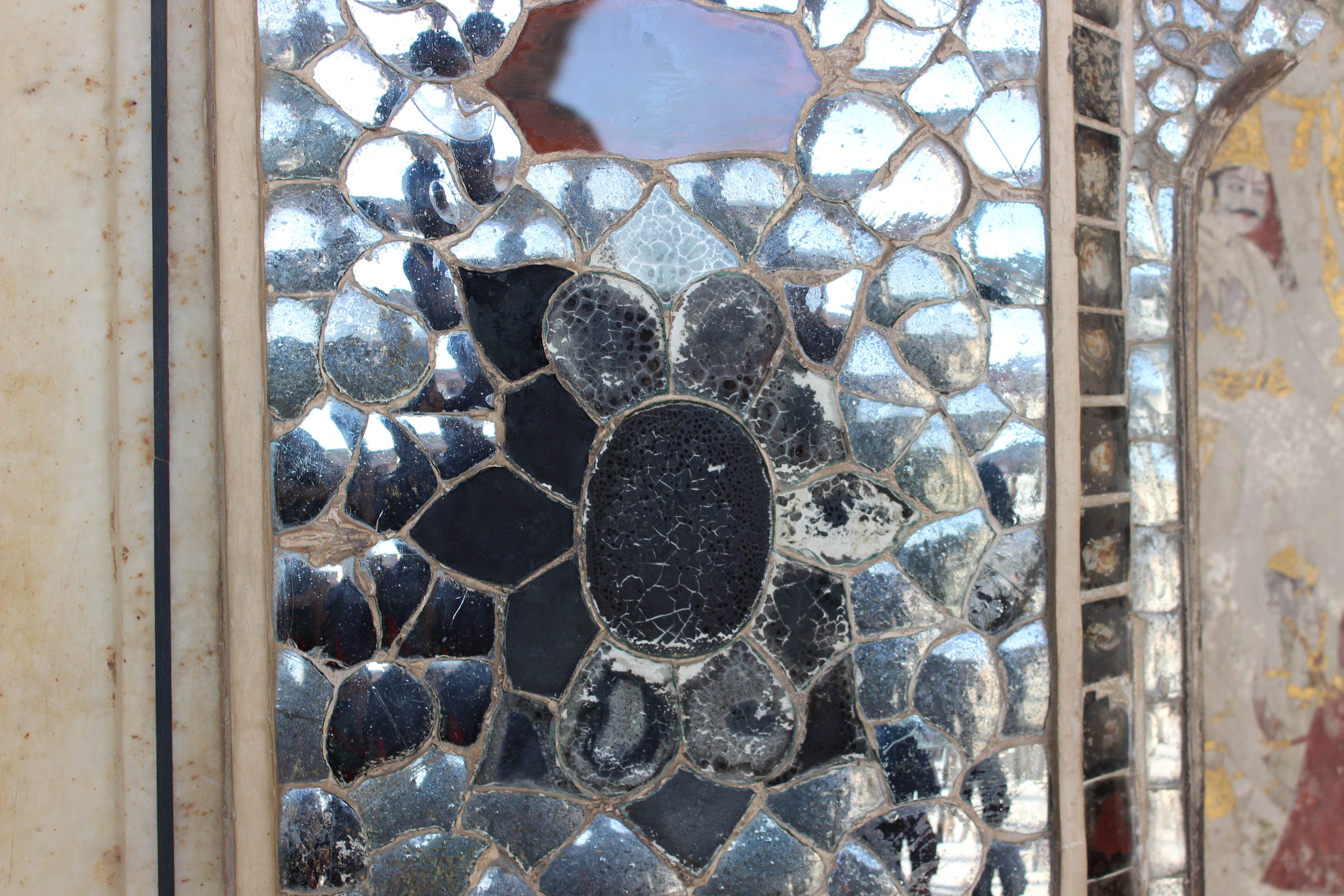 Lahore Fort complex (including Moti Masjid, Naulakha Pavilion, Sheesh Mahal and others) This is a photo of a monument in Pakistan identified as the PB-67